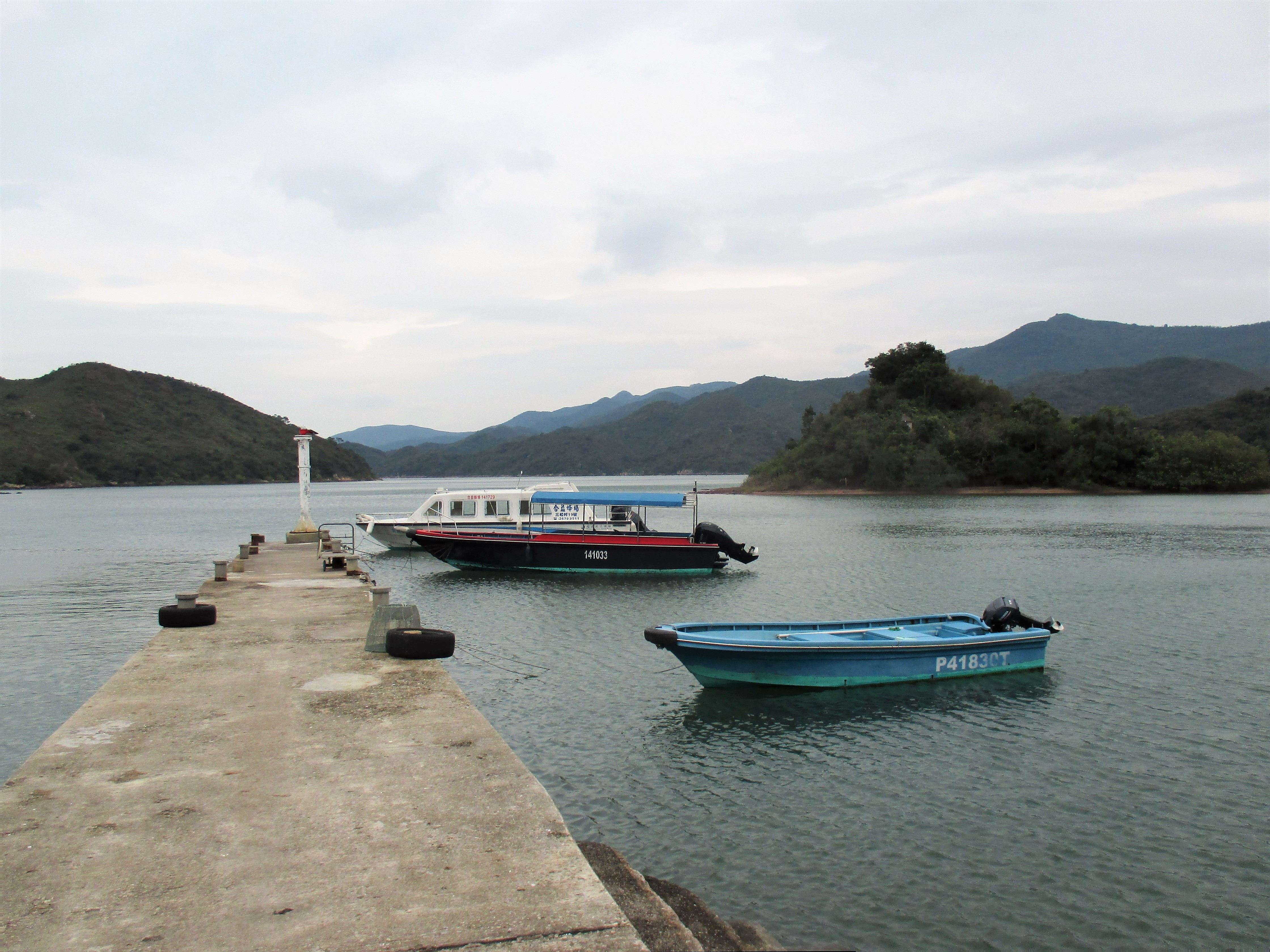 Sam A Tsuen, North District, Hong Kong